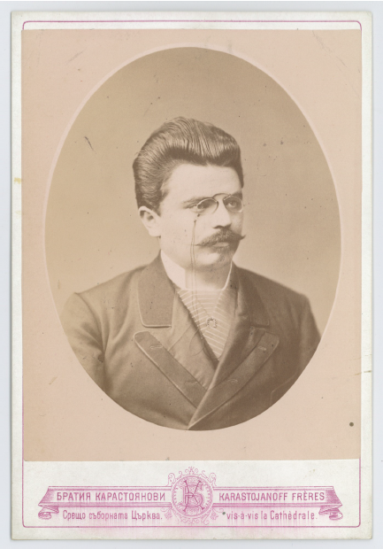 Studio portrait of Mihalaki Georgiev Medium close-up shot in an oval frame, depicting a man wearing a suit and scissor glasses. Verso: hand-written signature and date in Bulgarian.